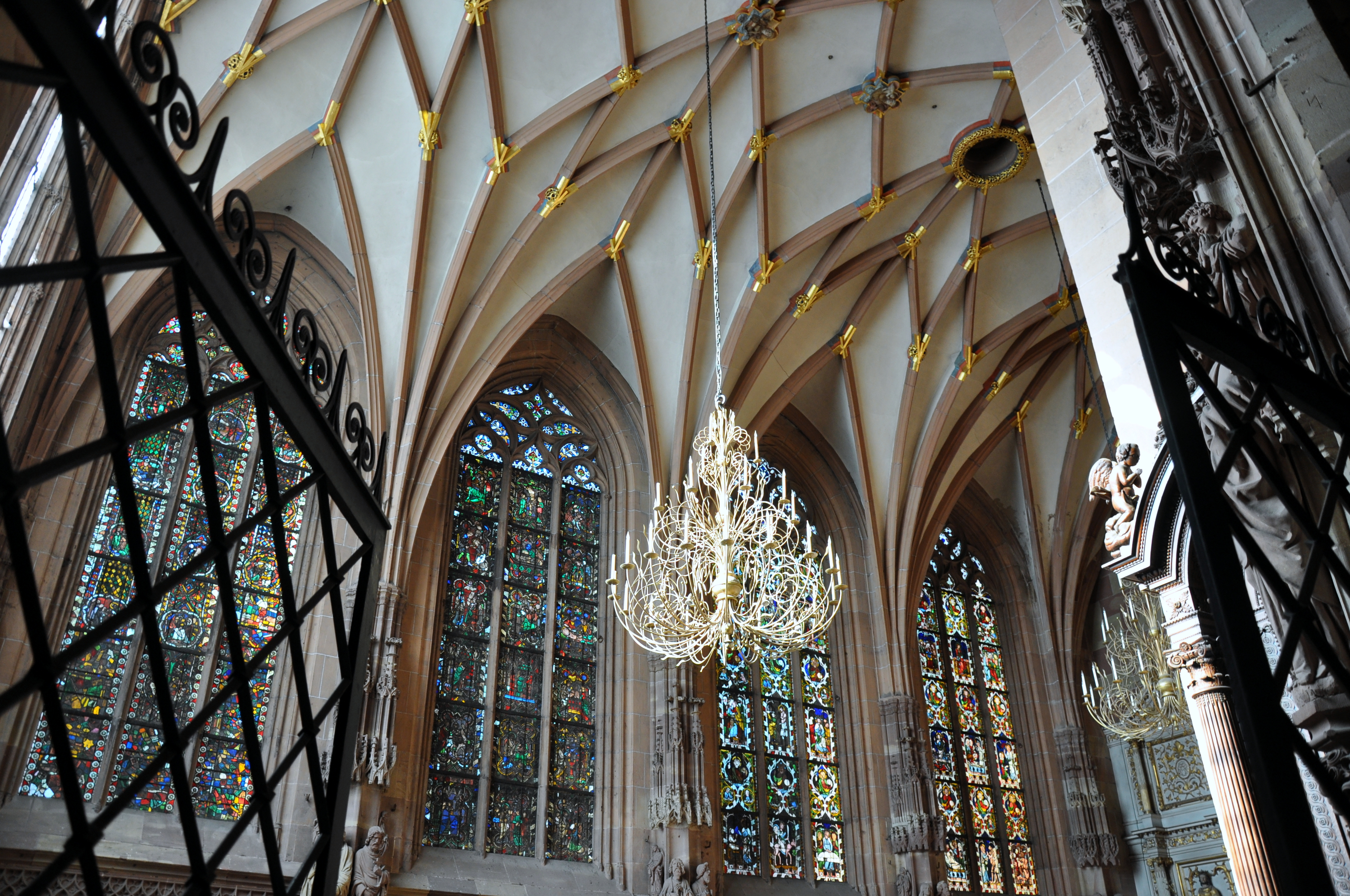 Strasbourg, France